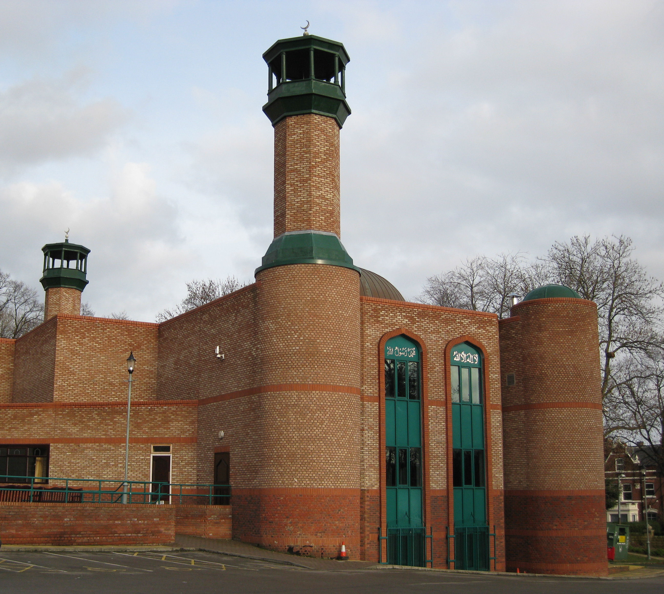 Leeds Jamia Mosque, 46-7 Spencer Place, Chapeltown, Leeds LS7